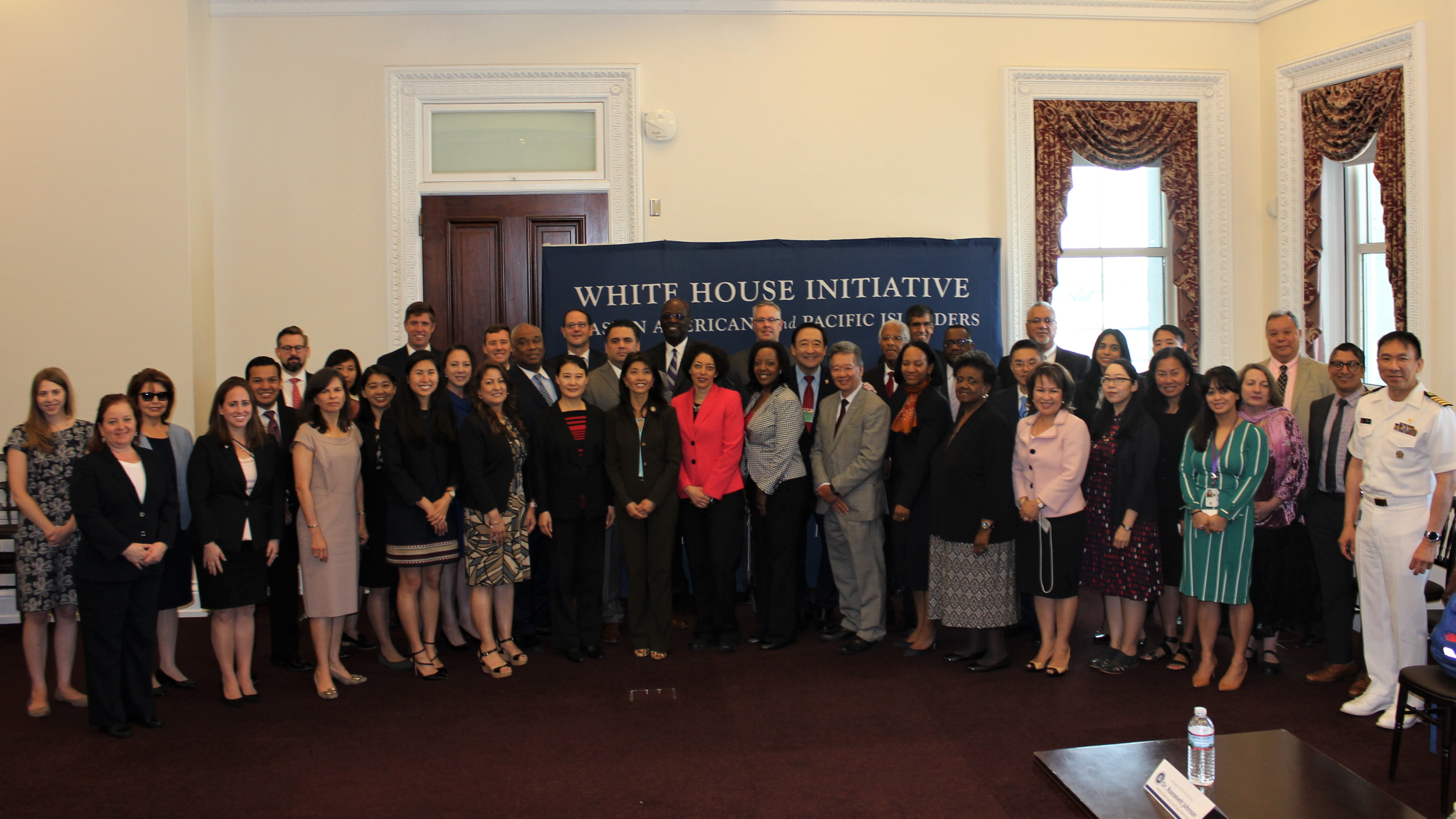 IWG Photo